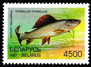 Stamp of Belarus